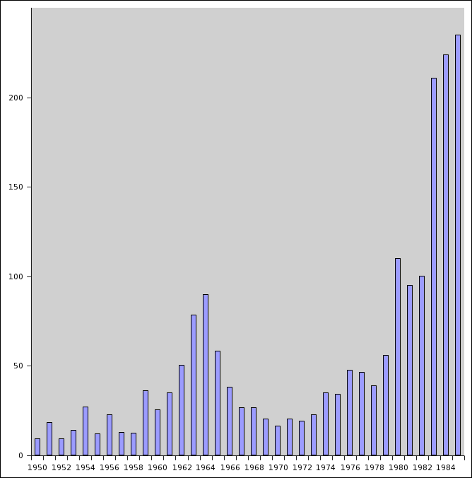 The inflation rate of Brazil 1950-1985. Exact numbers below.